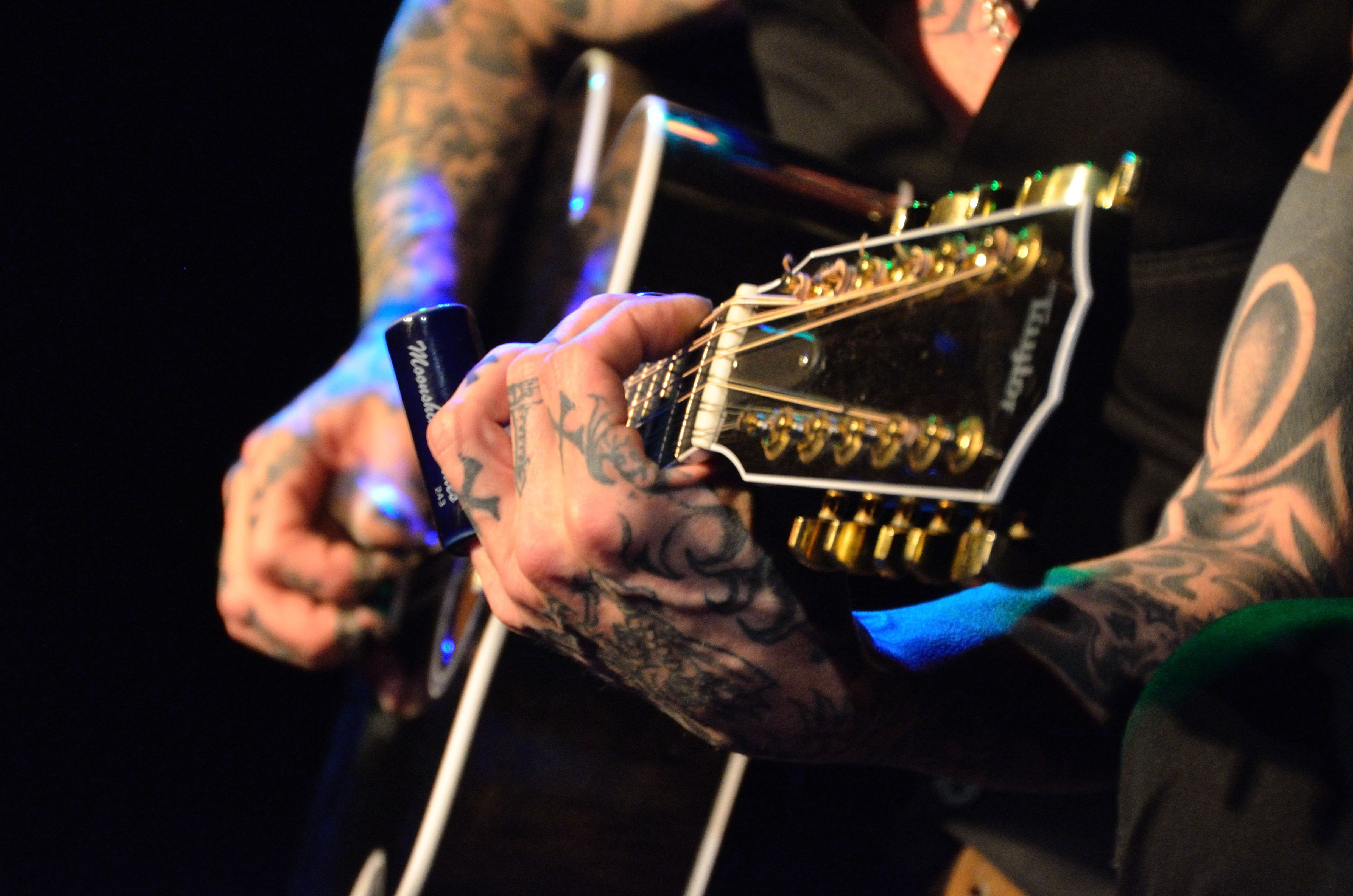 Ledfoot - Tim Scott McConnell 2011 at Viadukt, Zurich, Switzerland